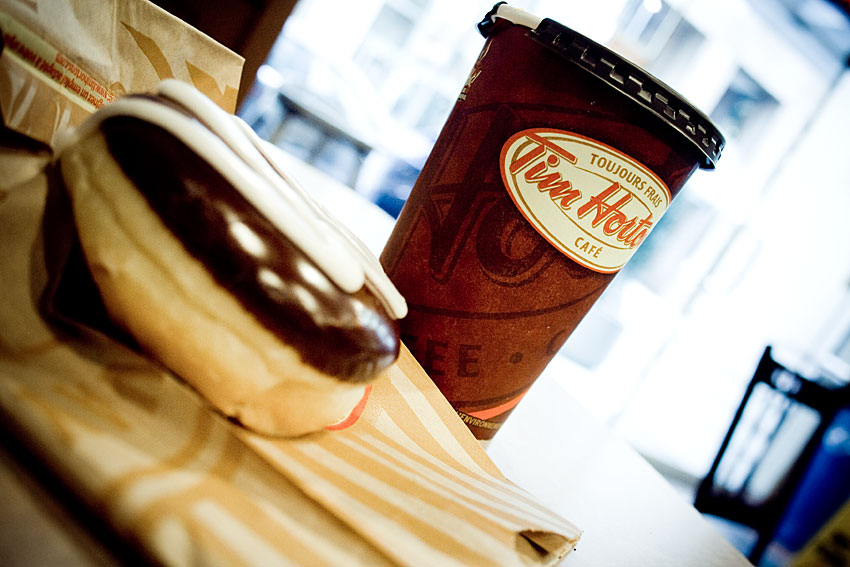 A coffee and doughnut at a Tim Hortons outlet on Yonge Street, Toronto, Canada.